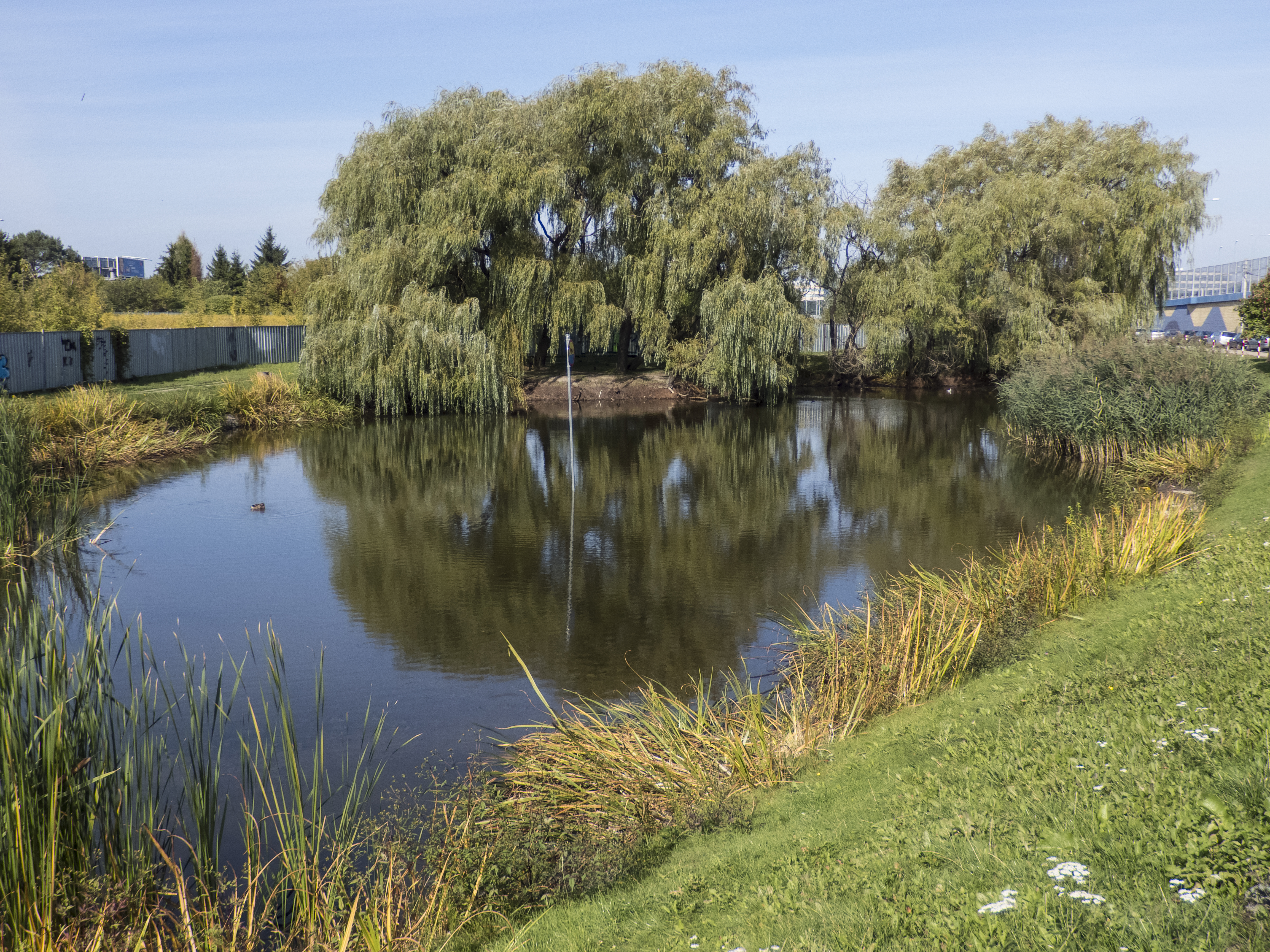 Staw Zbarski – pond in Waraw, Włochy district.